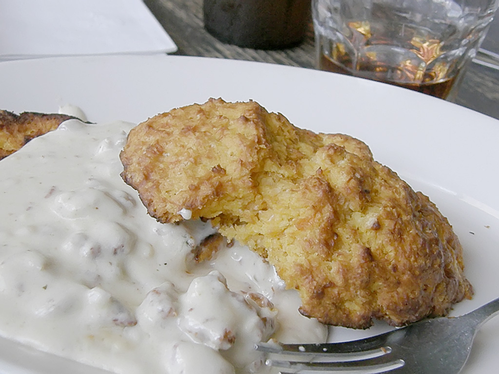 Biscuits and gravy as served by the B-Side Lounge at 92 Hampshire Street in the Kendall Square neighborhood of Cambridge, Massachusetts, USA. Photographer's note: "The sweet potato biscuits seemed to have raisins in them this time. This is not how I remembered them from a year ago."